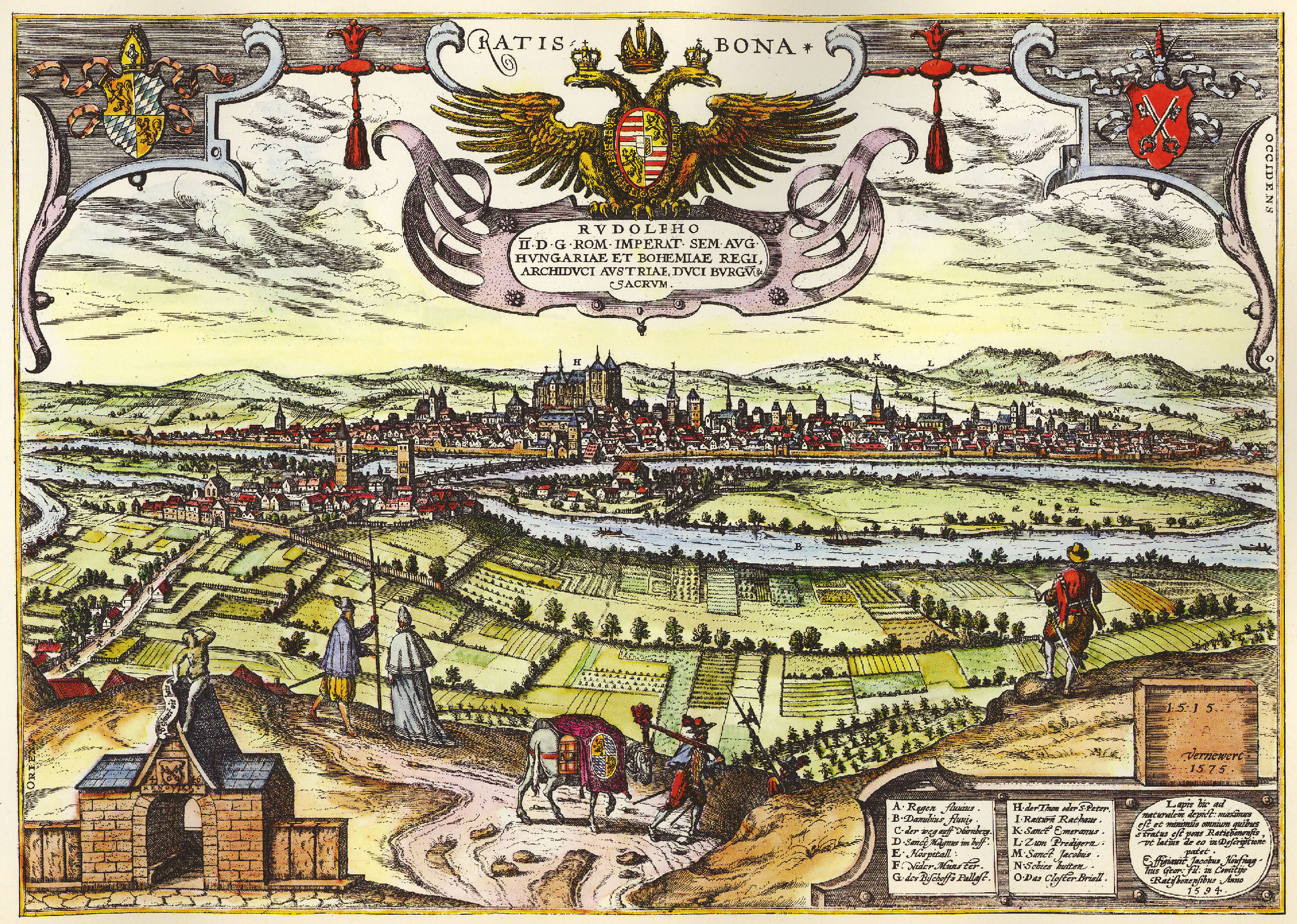 historical sight of the German town of Regensburg by Georg Braun and Franz Hogenberg (between 1572 and 1618)